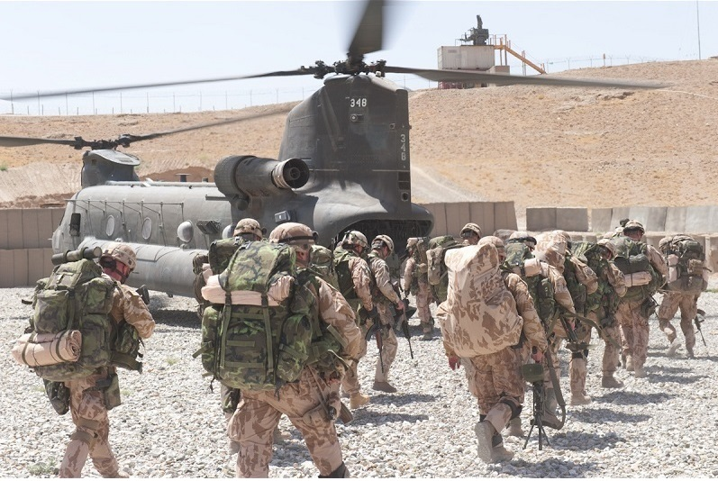 Air assault operation, 43rd Airborne Battalion (CZE), Afghanistan 2009